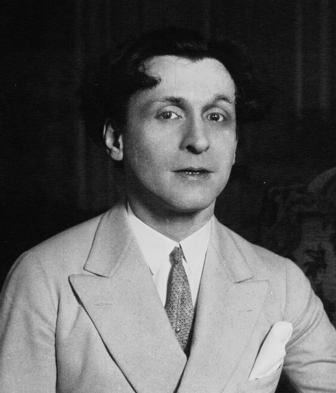 French playwright, novelist and poet Maurice Rostand (1891-1968).